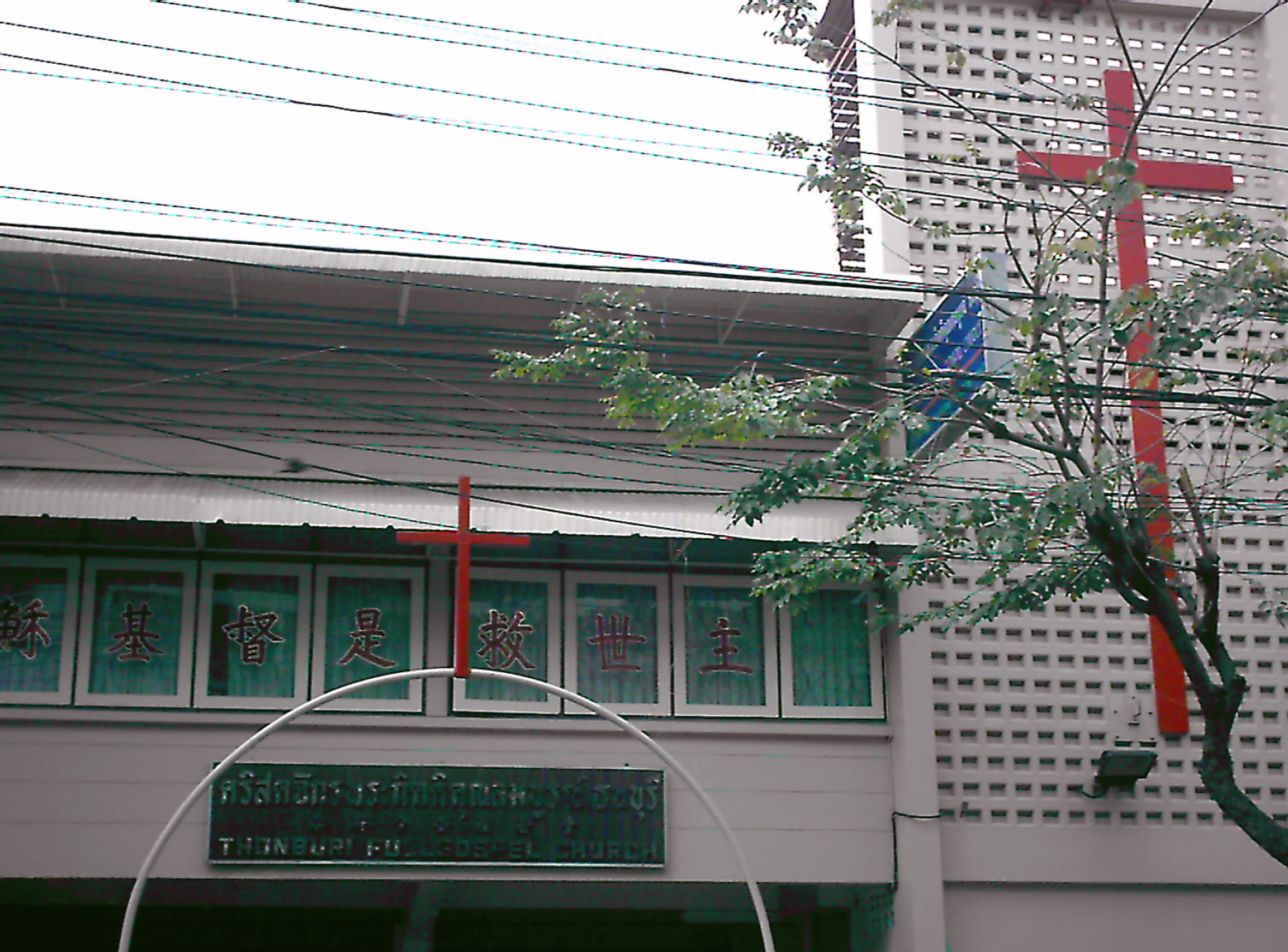 Thonburi Full Gospel Church, Charoen Rat Road, Khlongsan, Bangkok, Thailand 中文（香港）: 泰國，曼谷，空訕縣，乍隆叻路 288號的吞府全備福音堂